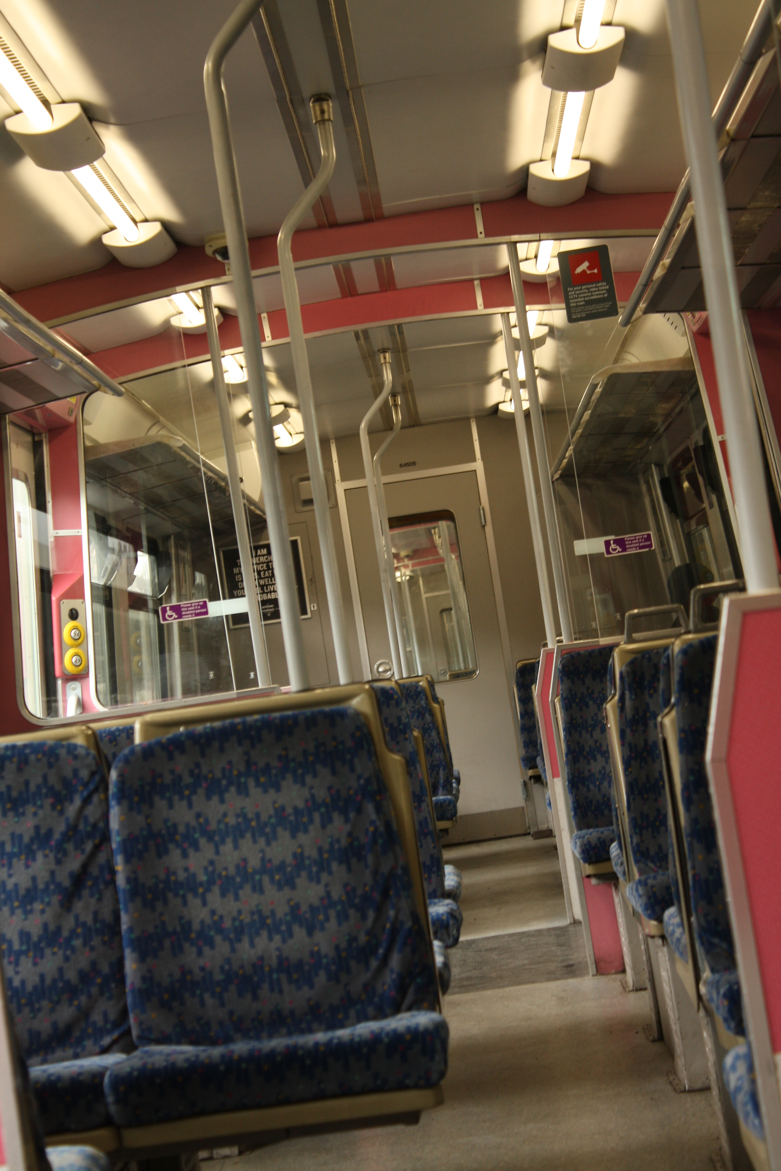 Train carriage of a Greater Anglia train